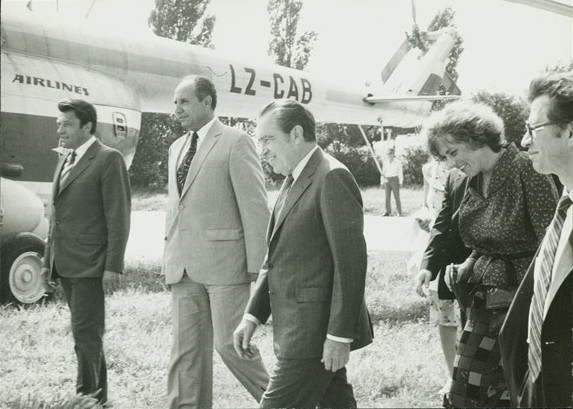 Richard Nixon's visit in Varna, Bulgaria. Elena Poptodorova is also visible on the photo.